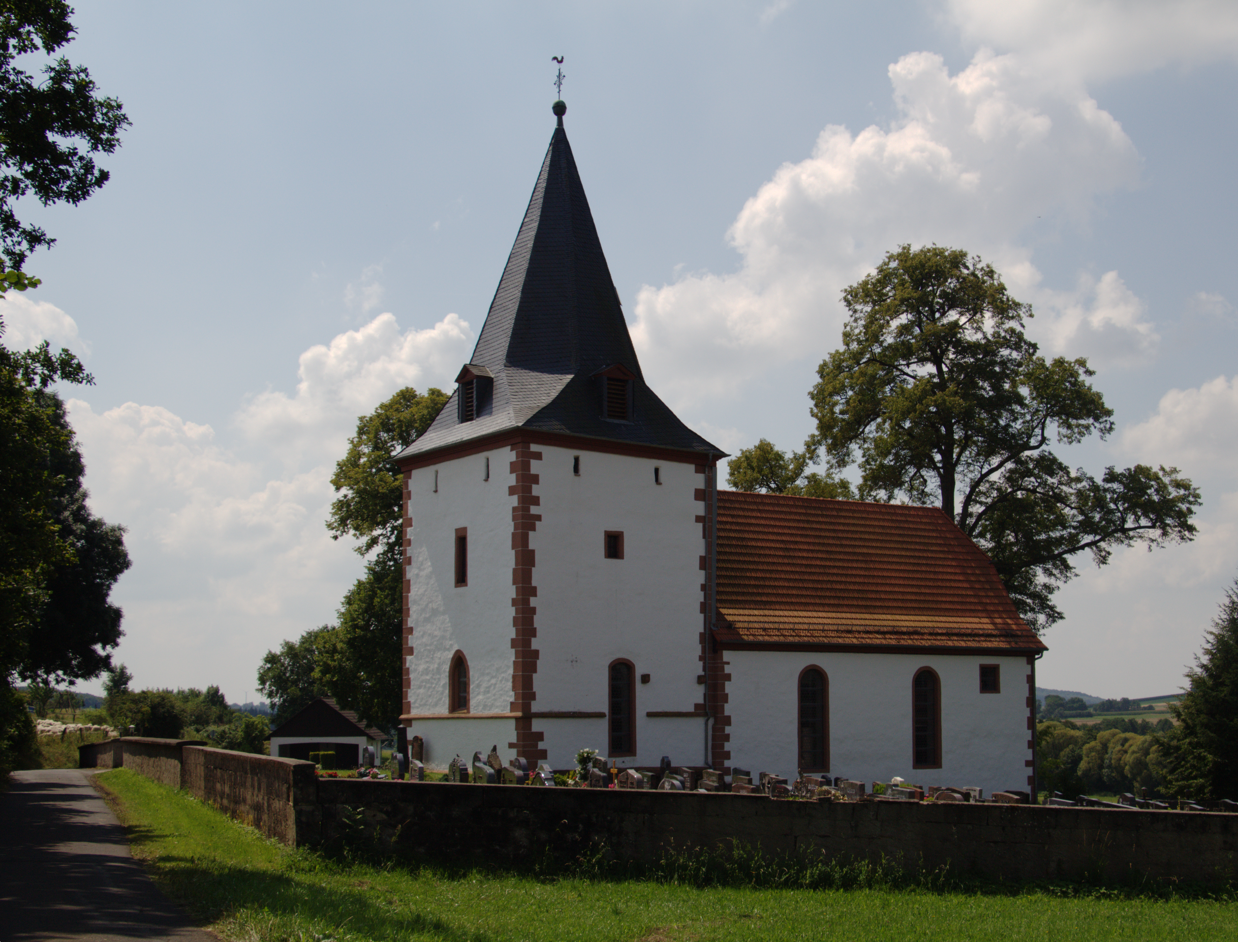 Protestant Nikolauskirche Church in Kirchbracht, Birstein, Hesse, Germany